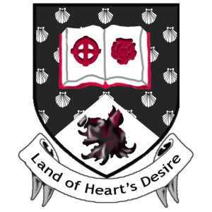 Sligo County Council crest.